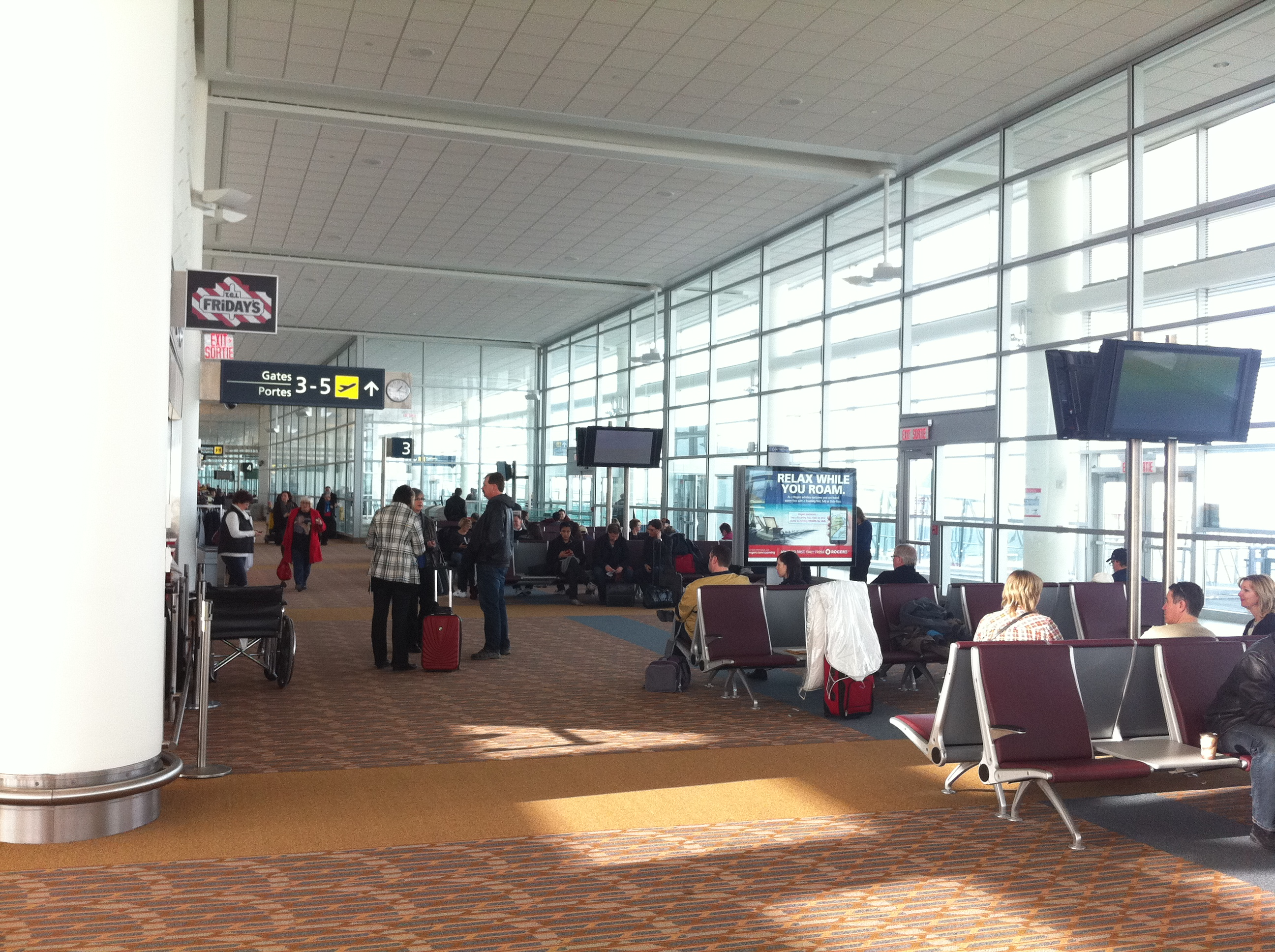 USA/Transborder departure gates at Winnipeg International Airport